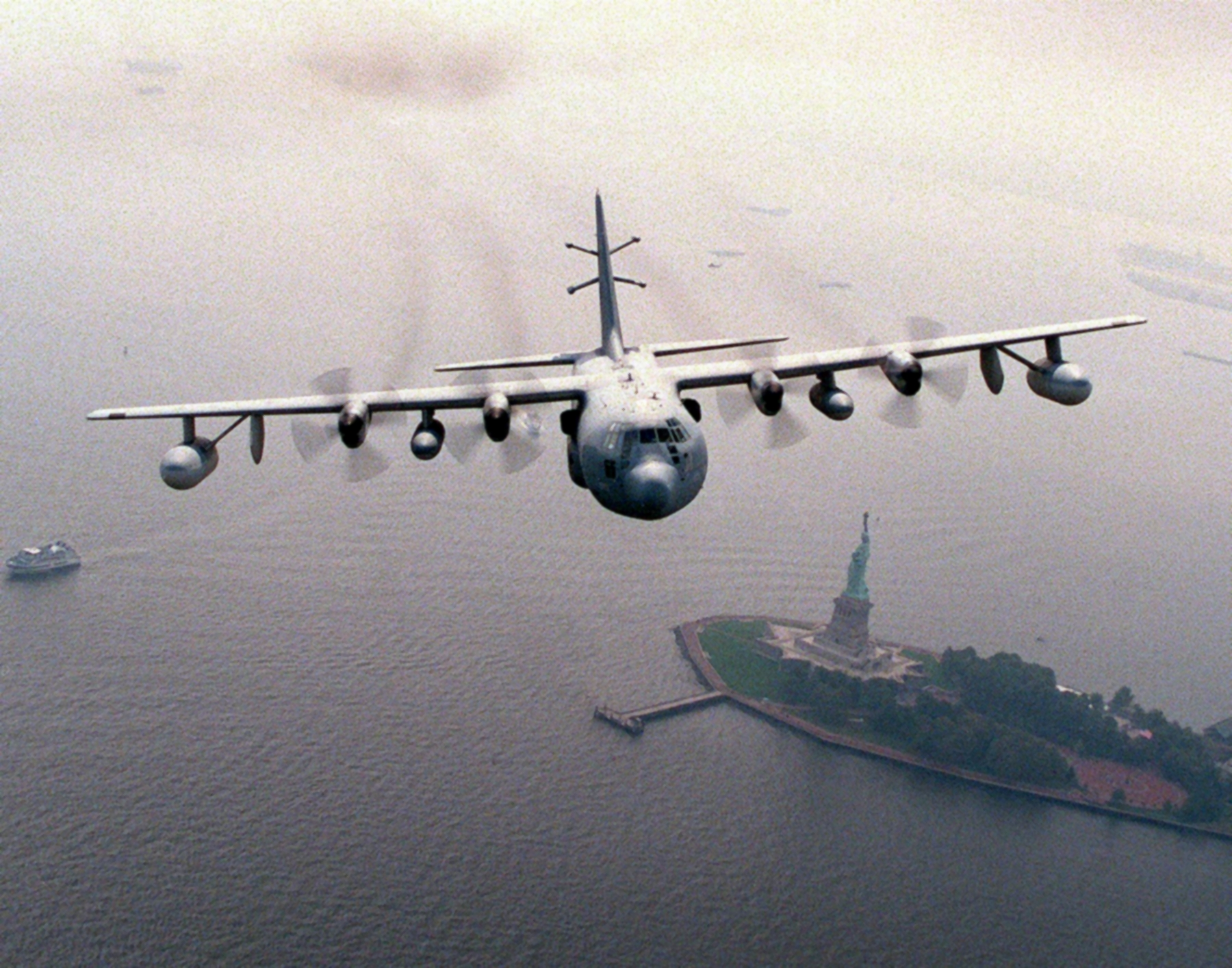 A Lockheed EC-130E Commando Solo II makes a pass over the Statue of Liberty in New York Harbor. The specially equipped EC-130E aircraft is used for psychological operations and is flown by the 193rd Special Operations Wing, Pennsylvania Air National Guard.